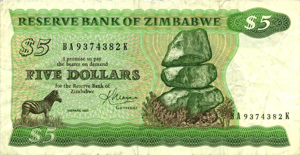 5 dollars du Zimbabwe, 1983